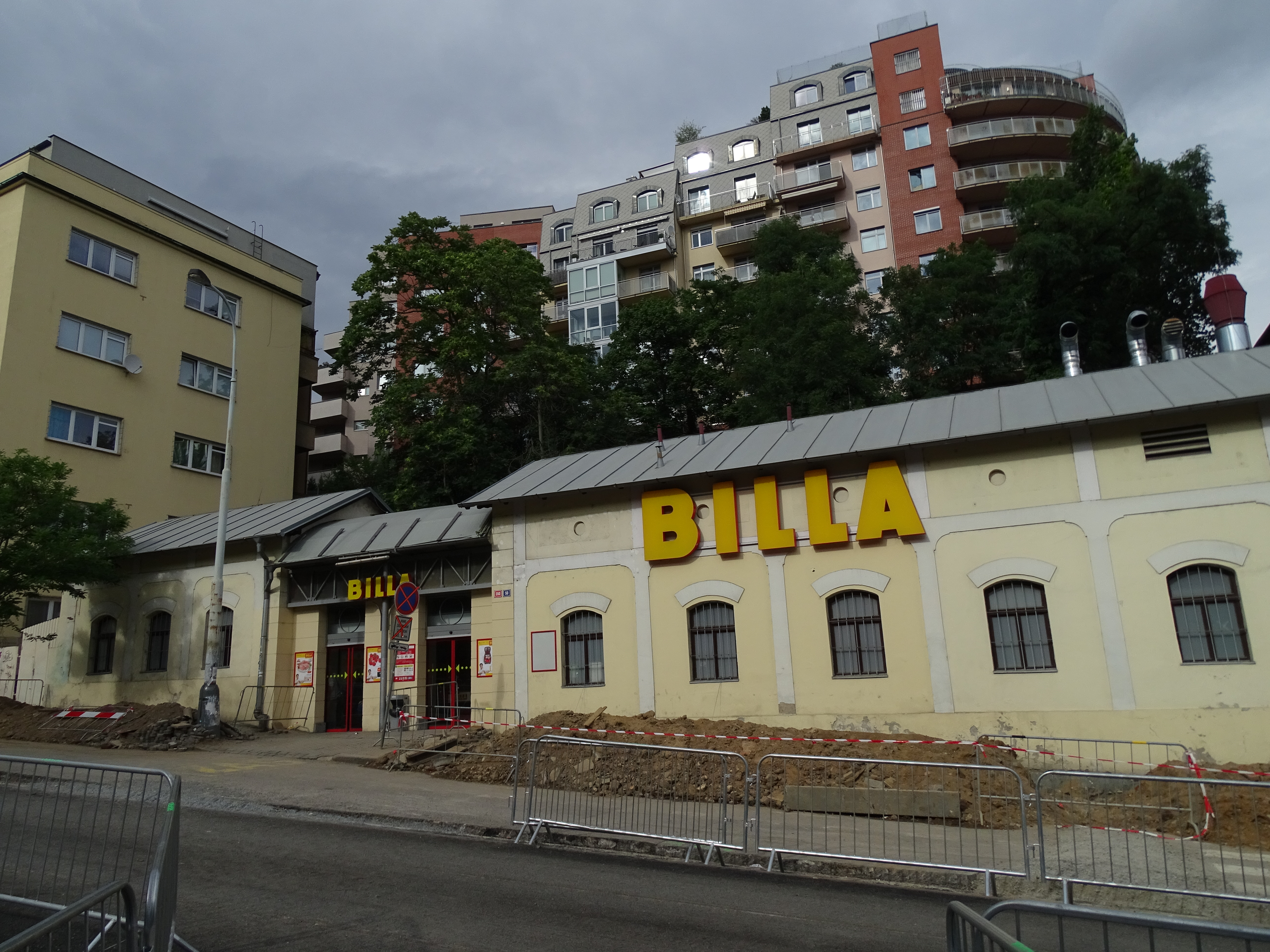 Prague-Vinohrady, Czech Republic. Bělehradská 350/50, Billa supermarket, reconstruction of tram track.